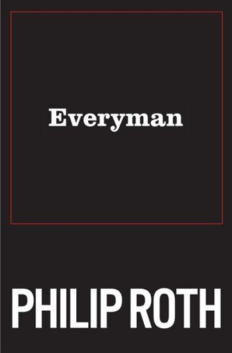 Dust jacket image of hardback printing of Philip Roth's novel Everyman